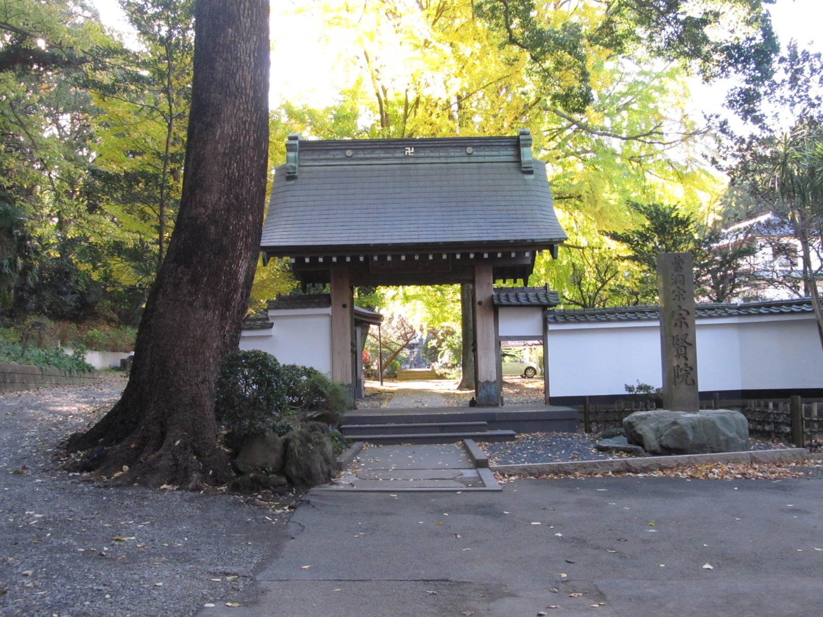 Sanmon at Sōken'in in Fujisawa City, Kanagawa Prefecture, Japan